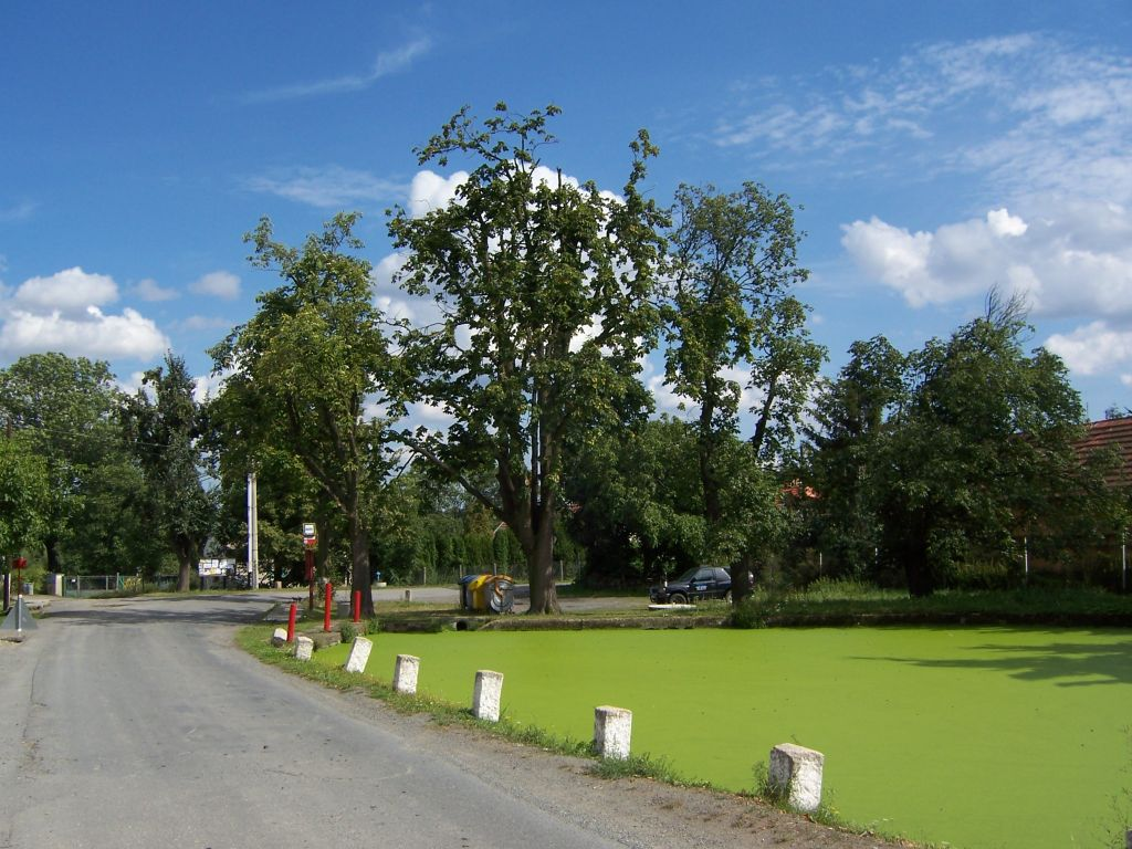 Březová-Oleško, Březová, village square